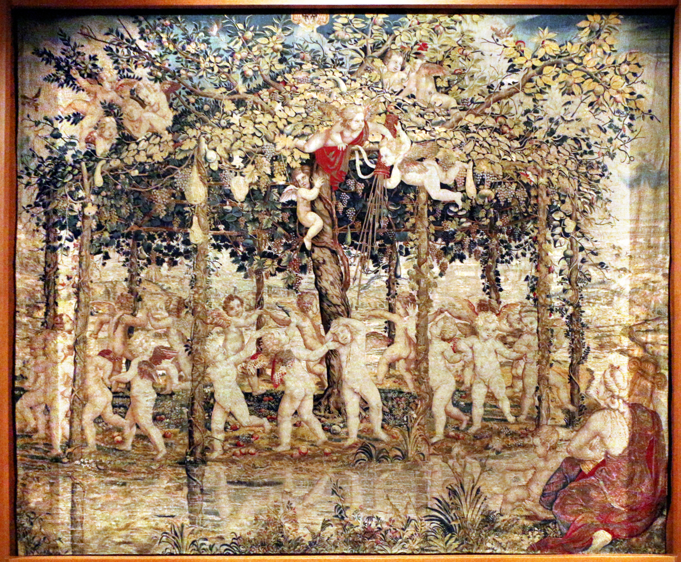 Collections of the Calouste Gulbenkian Museum